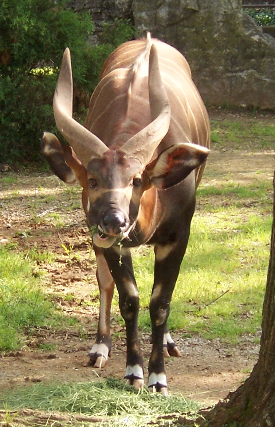 Bongo - Tragelaphus eurycerus isaaci at Louisville Zoo in Kentucky.. Photo taken by me